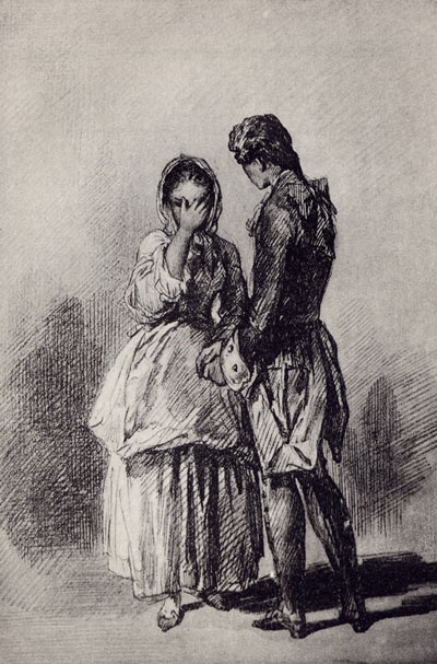 Maria Mironova and Peter Grineff (Illustration to Captain's Daughter)